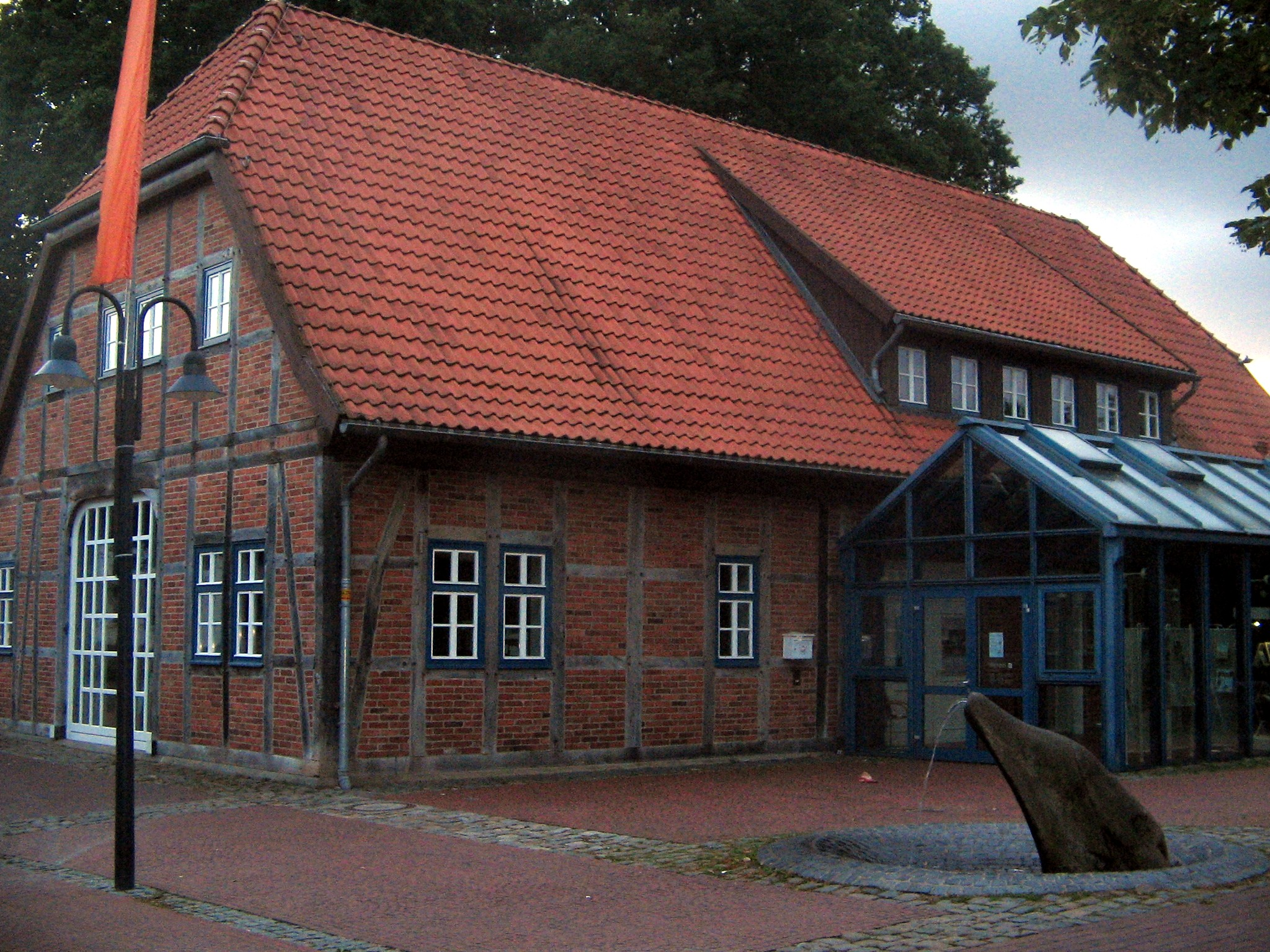 library in Burgwedel near Hannover/Germany photo taken on August 2005